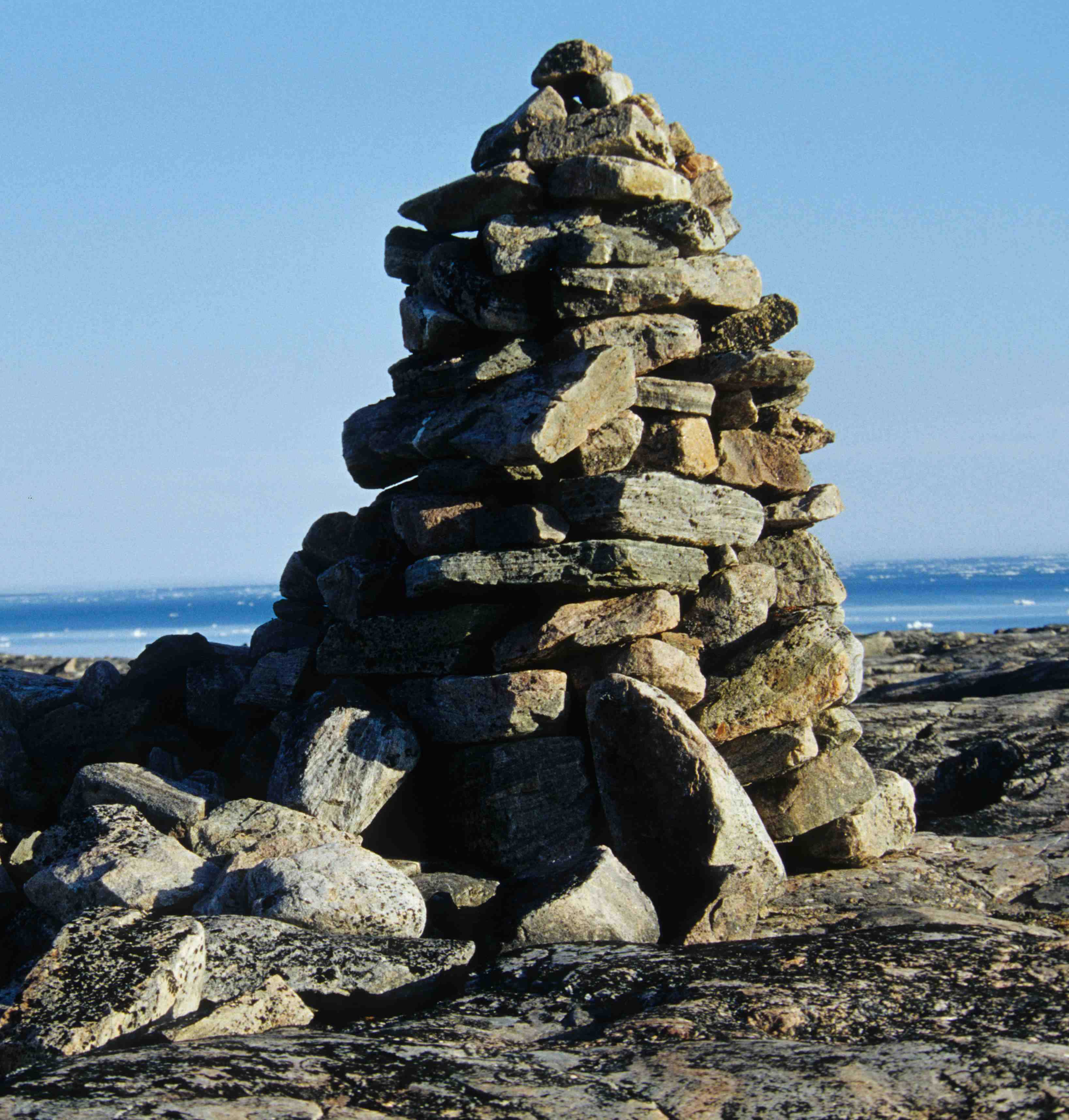 Inuksukjuaq (which means “very big inuksuk”), Foxe Peninsula (Baffin Island), Nunavut, Canada